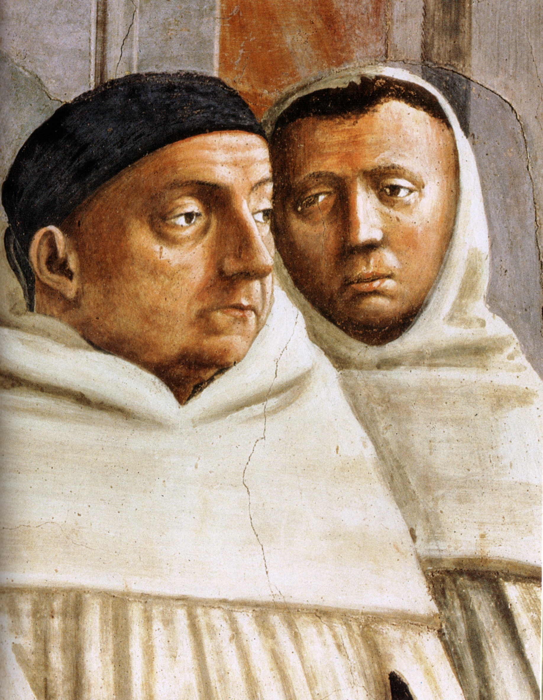 Raising of the Son of Teophilus and St. Peter Enthroned 28.jpg